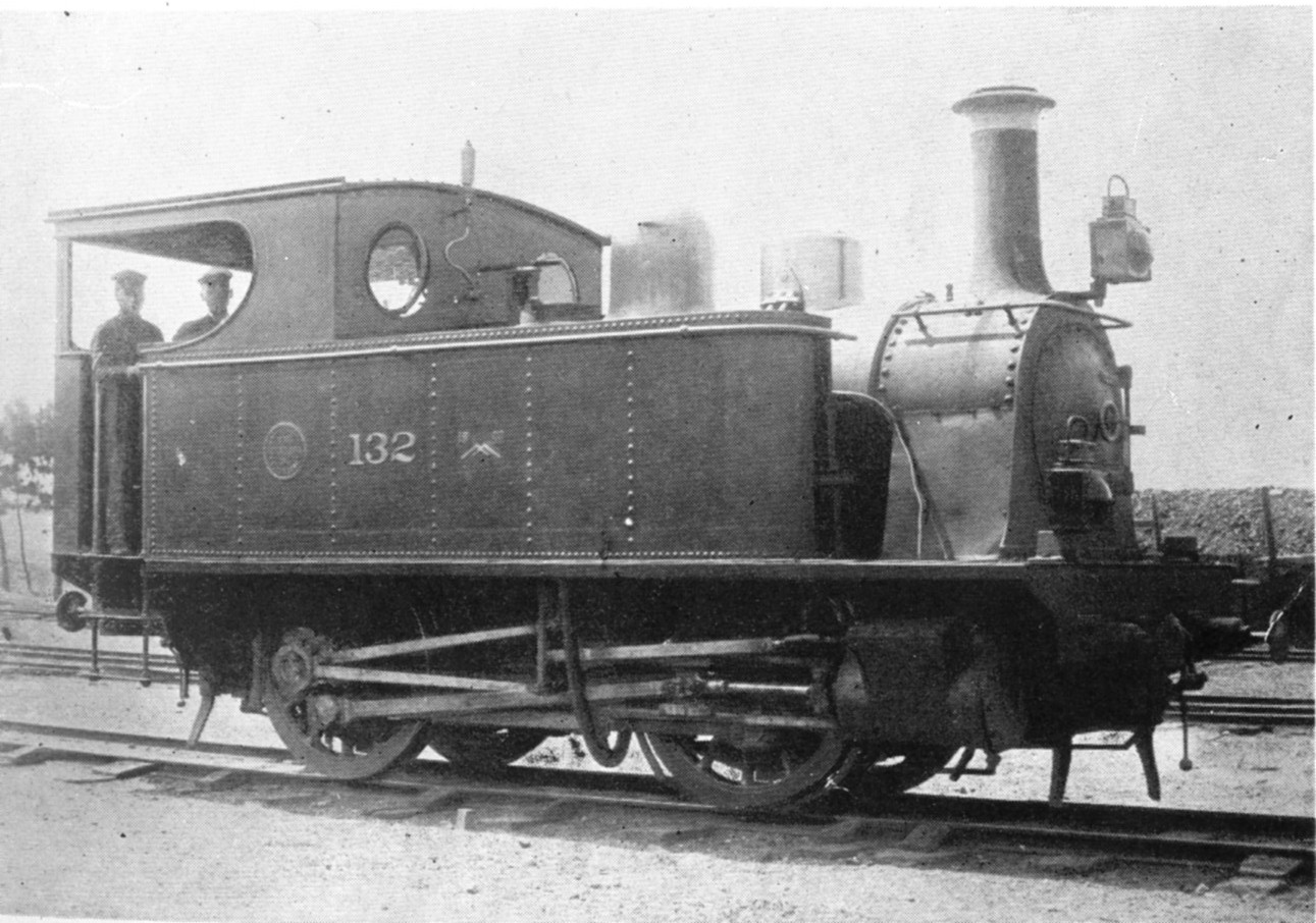 Japan Government Railway 60 type steam locomotive (Ex. Sanyo Railway 132)